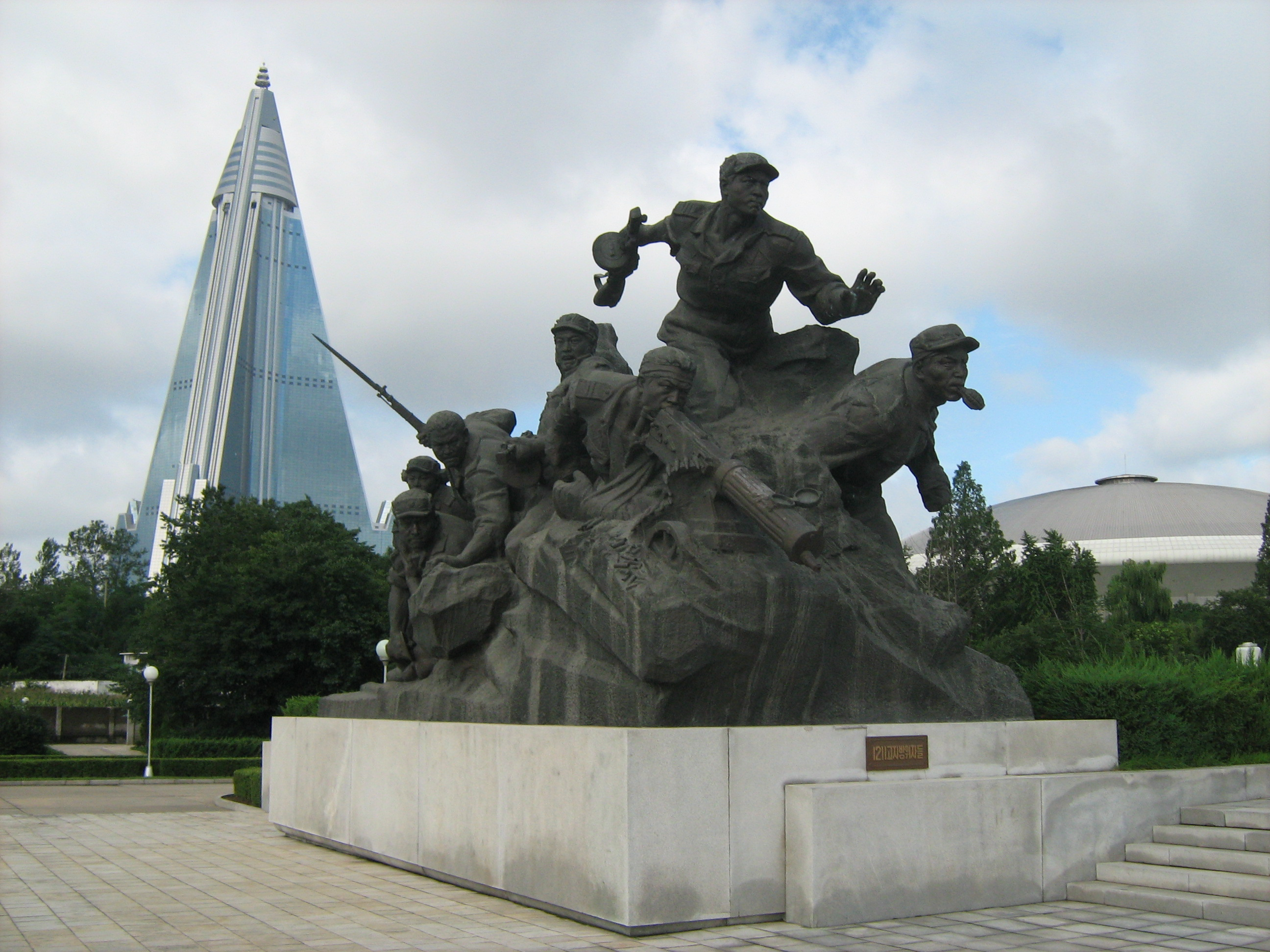 This shows a Korean War Memorial in Pyongyang, North Korea.